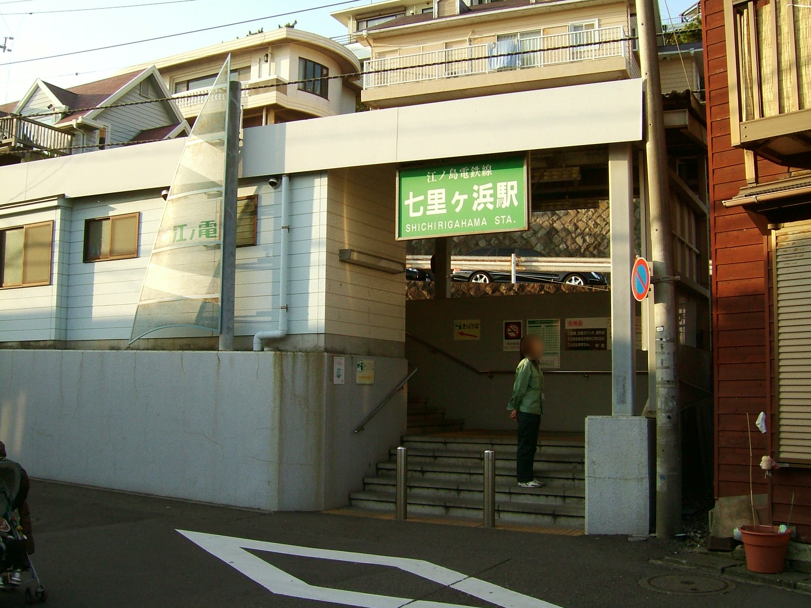 The entrance to Shichirigahama Station on the Enoden Line in Kamakura city, Kanagawa prefecture, Japan